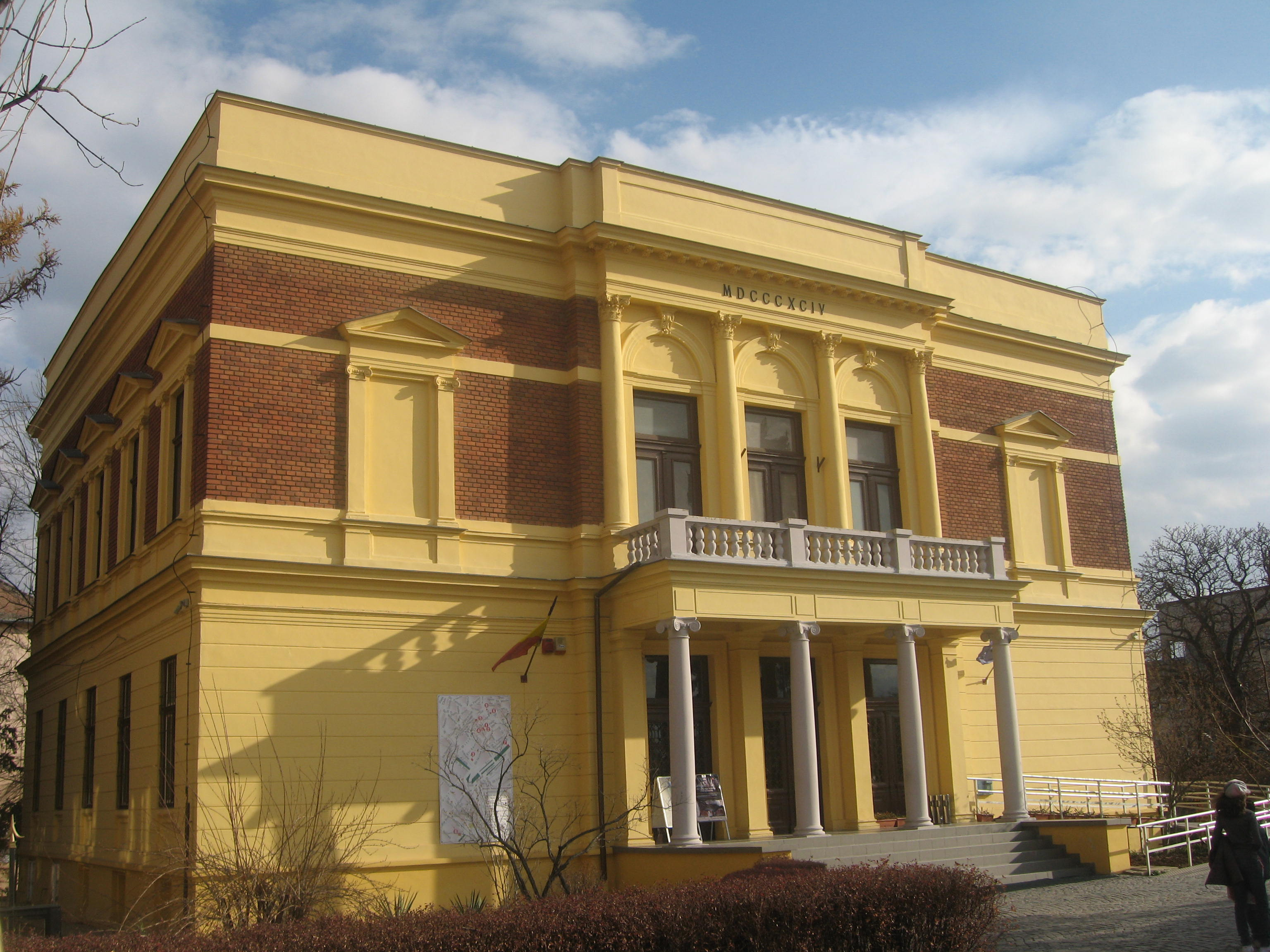 Muzeul de Istorie Naturala din Sibiu